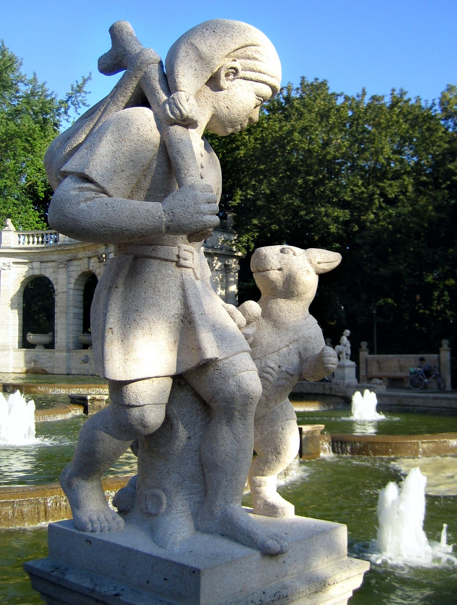 Friedrichshain locality of Berlin: Märchenbrunnen (fairy tale fountain) in the Volkspark Friedrichshain park, sculpture on the Brothers Grimm fairy tale «Sleeping Beauty» by Ignatius Taschner.